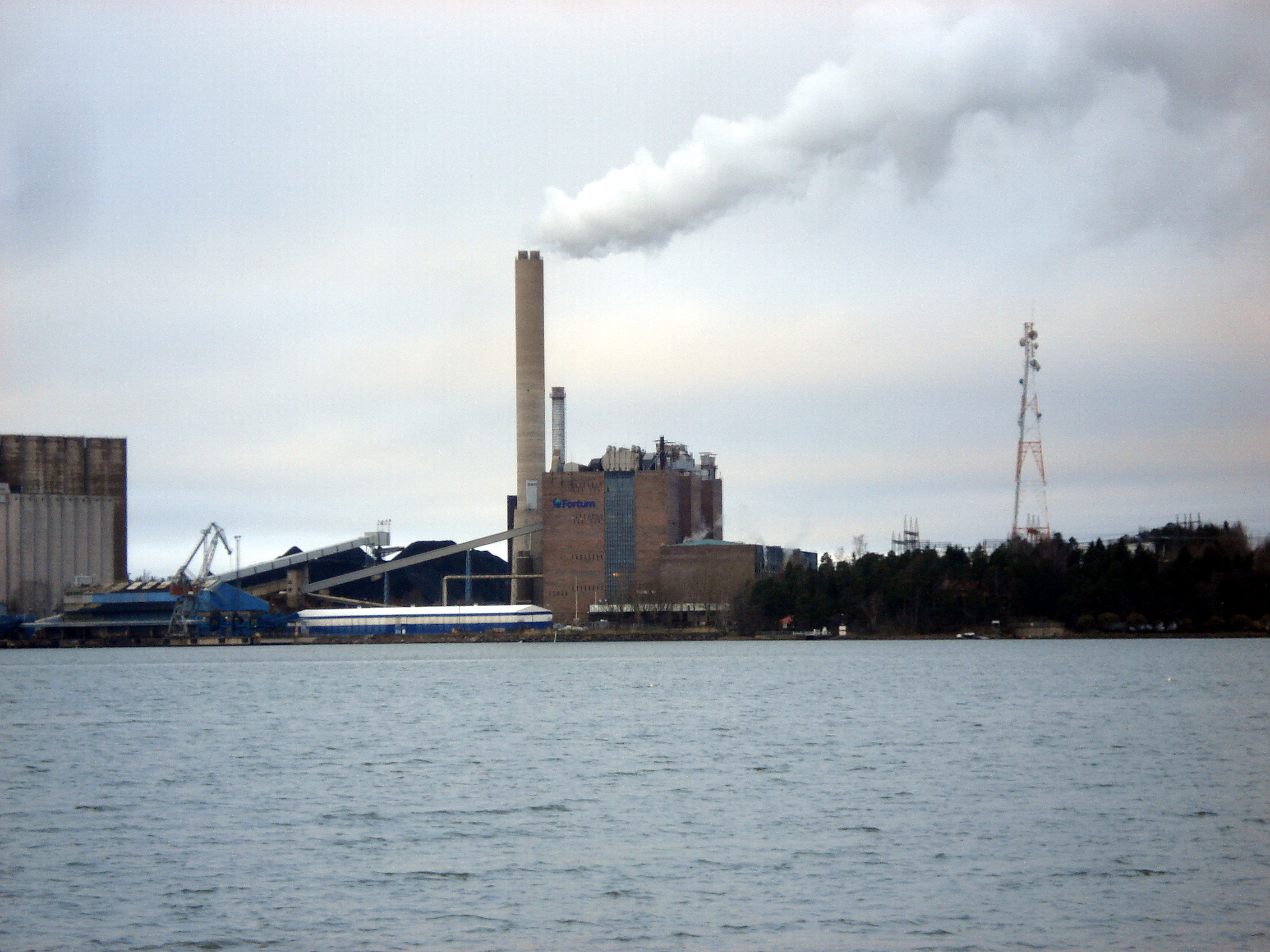 Left to right: Naantali silos, Fortum Naantali Power station in the Port of Naantali Naantali, Finland.